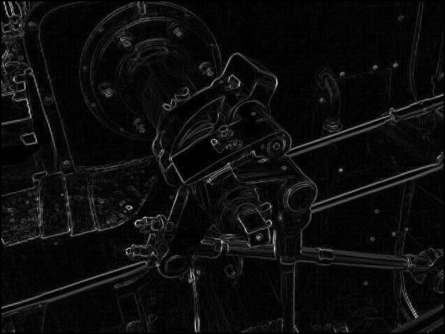 The original image was taken by me in Manchester in the Museum of Science and Industry in Manchester. This was obtained using a Java edge detection program I wrote. If you want the source code leave me a message.